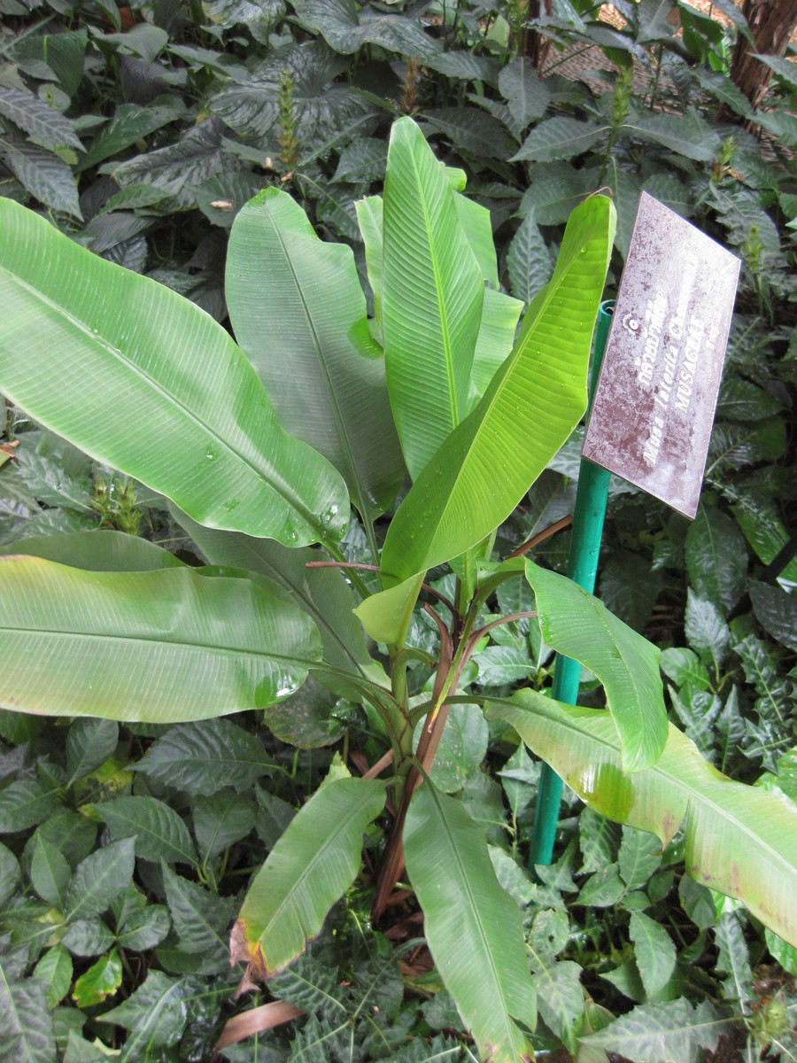 Photographed at the Queen Sirikit Botanic Garden (Chiang Mai Province, Thailand) in March